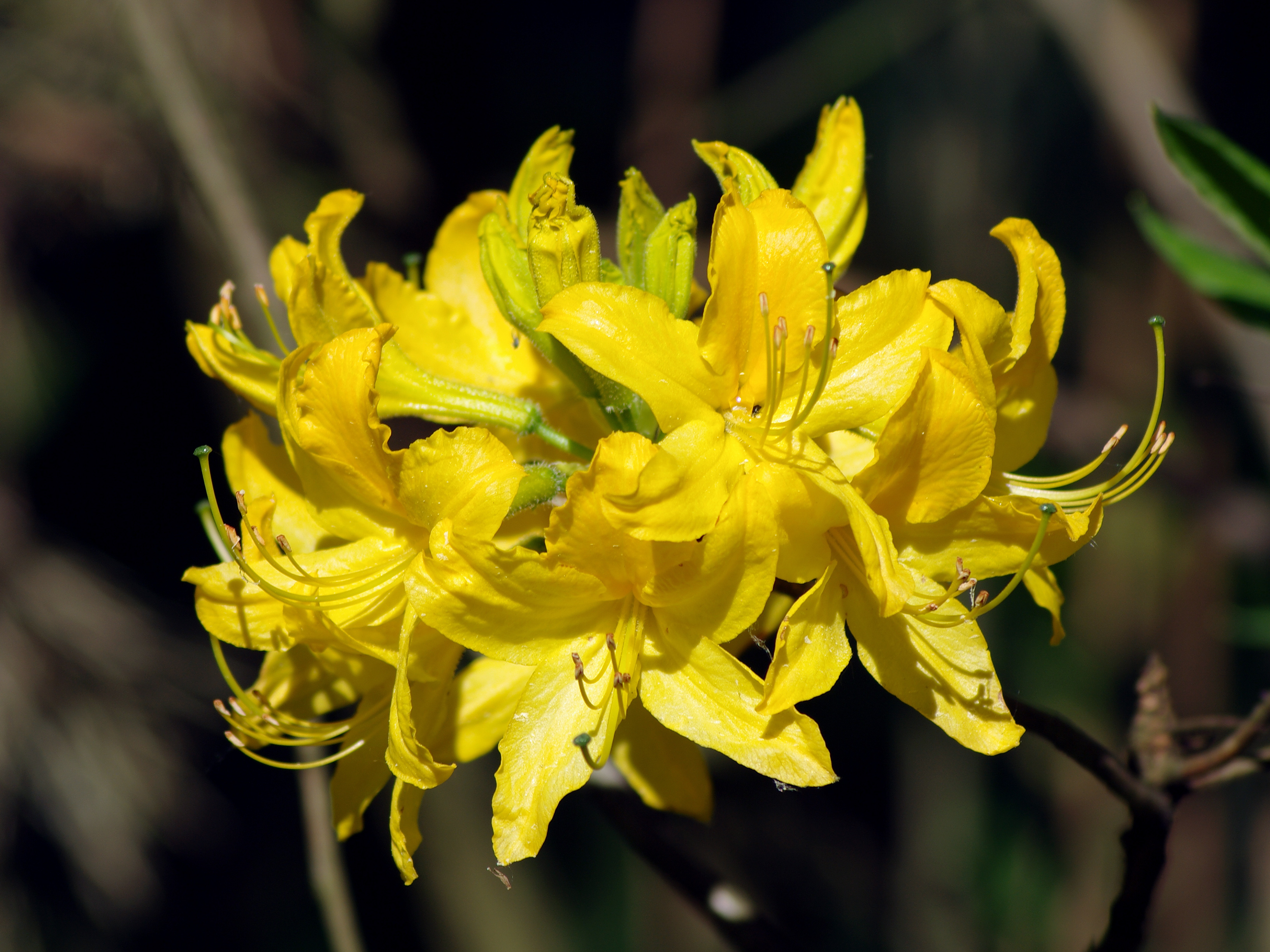 Yellow Azalea (Honeysuckle Azalea)